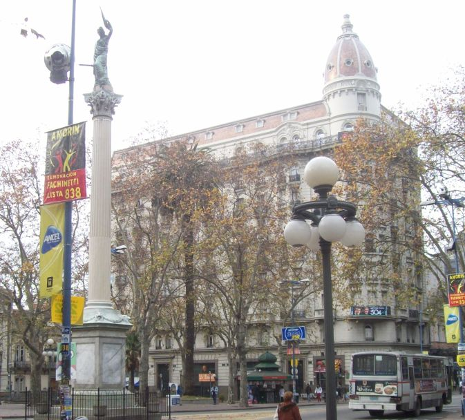 Building: Palacio Montero Location: Montevideo, Uruguay